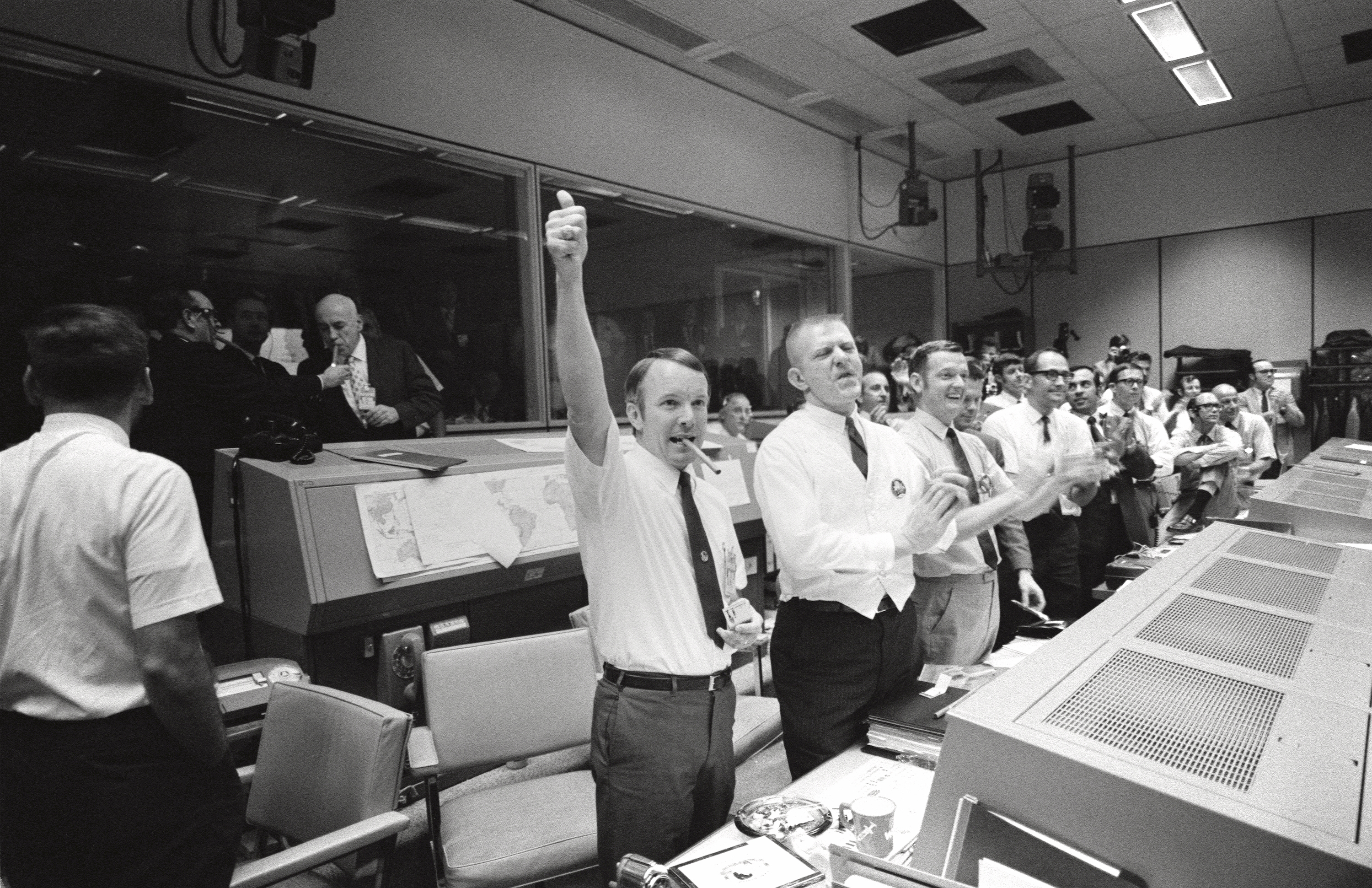 Three of the four Apollo 13 Flight Directors applaud the successful splashdown of the Command Module "Odyssey" while Dr. Robert R. Gilruth, Director, Manned Spacecraft Center (MSC), and Dr. Christopher C. Kraft Jr., MSC Deputy Director, light up cigars (upper left). The Flight Directors are from left to right: Gerald D. Griffin, Eugene F. Kranz and Glynn S. Lunney. Apollo 13 crew members, astronauts James A. Lovell Jr., Commander; John L. Swigert Jr., Command Module pilot, and Fred W. Haise Jr., Lunar Module pilot, splashed down at 12:07:44 (CST) in the South Pacific Ocean, approximately four miles from the Apollo 13 prime recovery ship, the U.S.S. Iwo Jima.